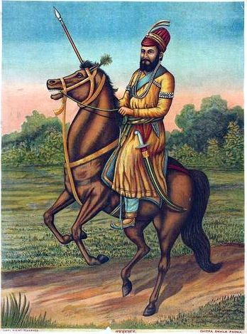 Afzul Khan - Early 20th Century Chromolithograph 18.5 x 13.5 in. 46.99 x 34.29 cm. Artwork Code: BENGALLITHO170